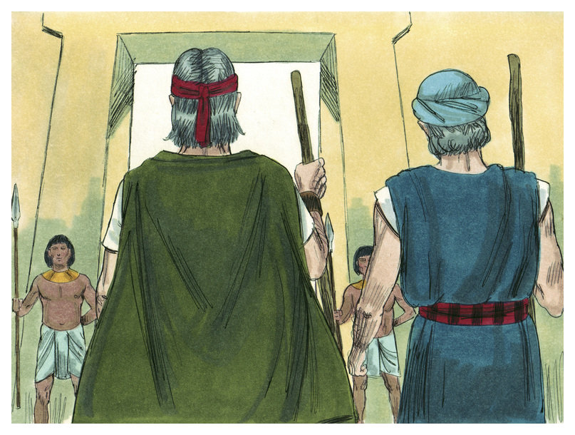 Biblical illustration of Book of Exodus Chapter 6